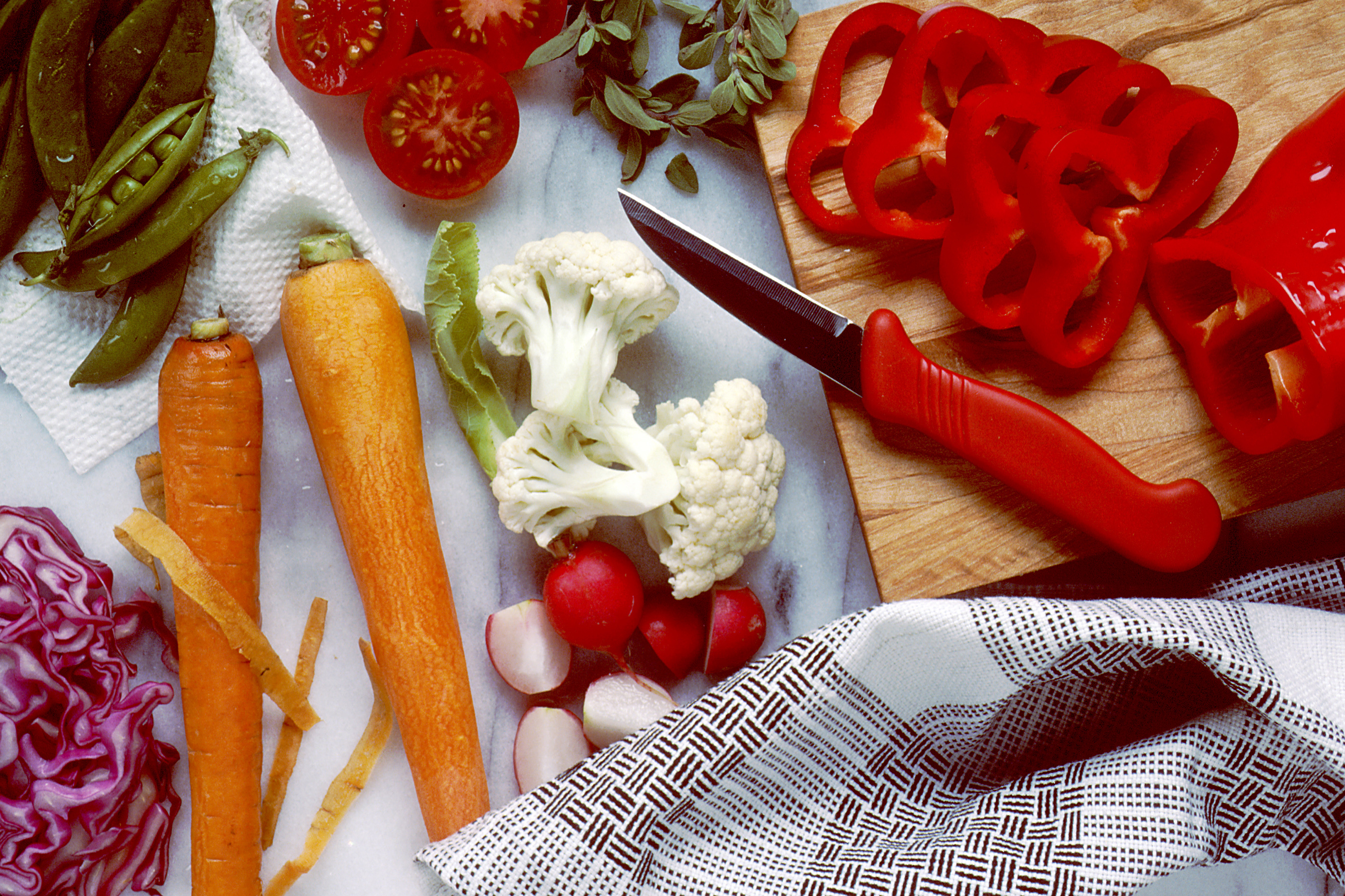 Title Vegetable Preparation Description There is a butcher block cutting board on a white tablecloth. On the table are peapods, purple cabbage, cherry tomatoes, watercress, carrots, cauliflower and radishes. On the cutting board is a sliced red pepper and an red paring knife. In front of the board is a grey and white plaid napkin. Topics/Categories Food and Drink Type Color, Photo Source National Cancer Institute